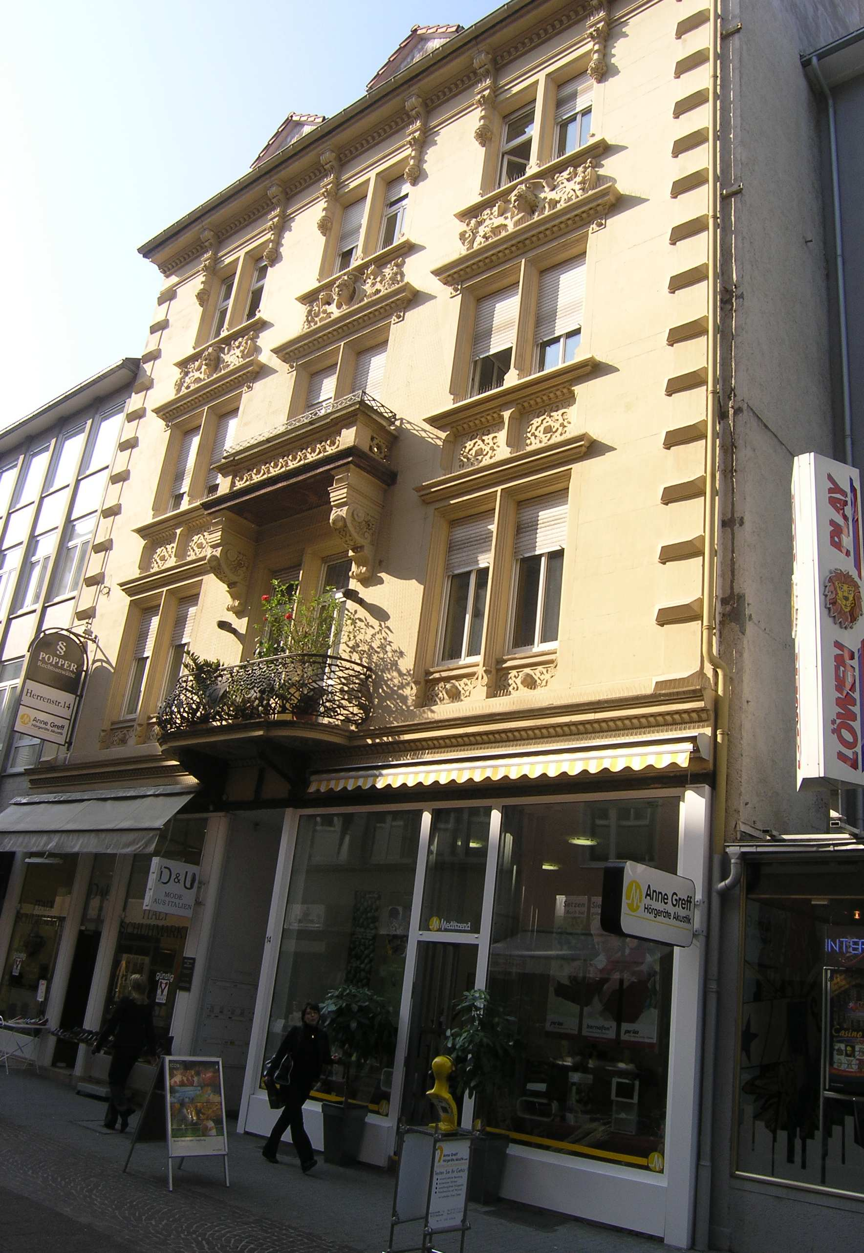 Building of the jewish community in Karlsruhe, uses as synagogue from 1938 until 1971